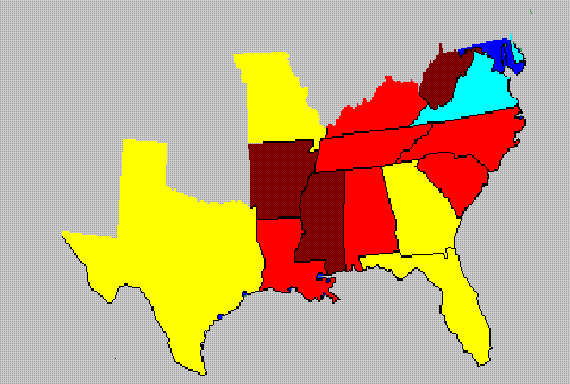 Southern United States household income.